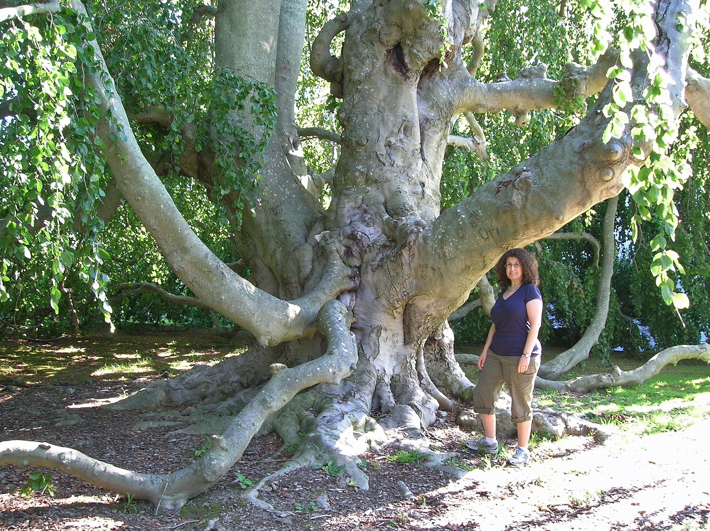 Photograph from August 2015 of a weeping beech tree located at Salve Regina University in Newport, Rhode Island. In August 2015, this tree's measurements were: Circumference 17 feet (measured at approximately 2 feet above ground, before the first limbs); Height 60 feet; Average spread: 75 feet.